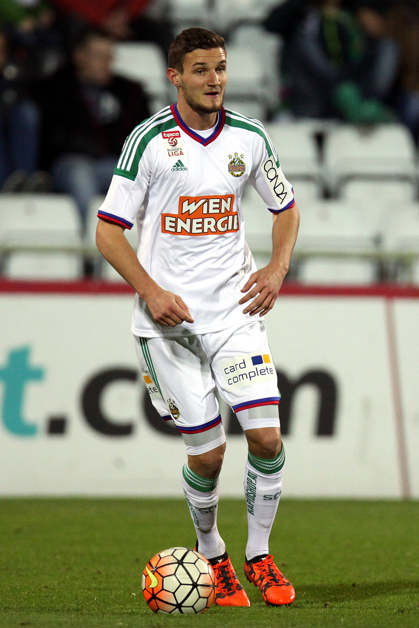 Match of the Austrian Football Bundesliga – FC Admira Wacker Mödling (red shirts) vs. SK Rapid Wien (white shirts) 2-1 (0-1) on 2015-12-02 in Bundesstadion Sudstadt – The photo shows Maximilian Hofmann.